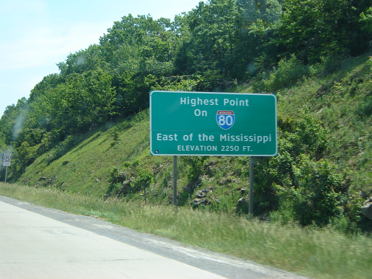 Highest point on Interstate 80 east of the Mississippi; elevation 2250 feet.